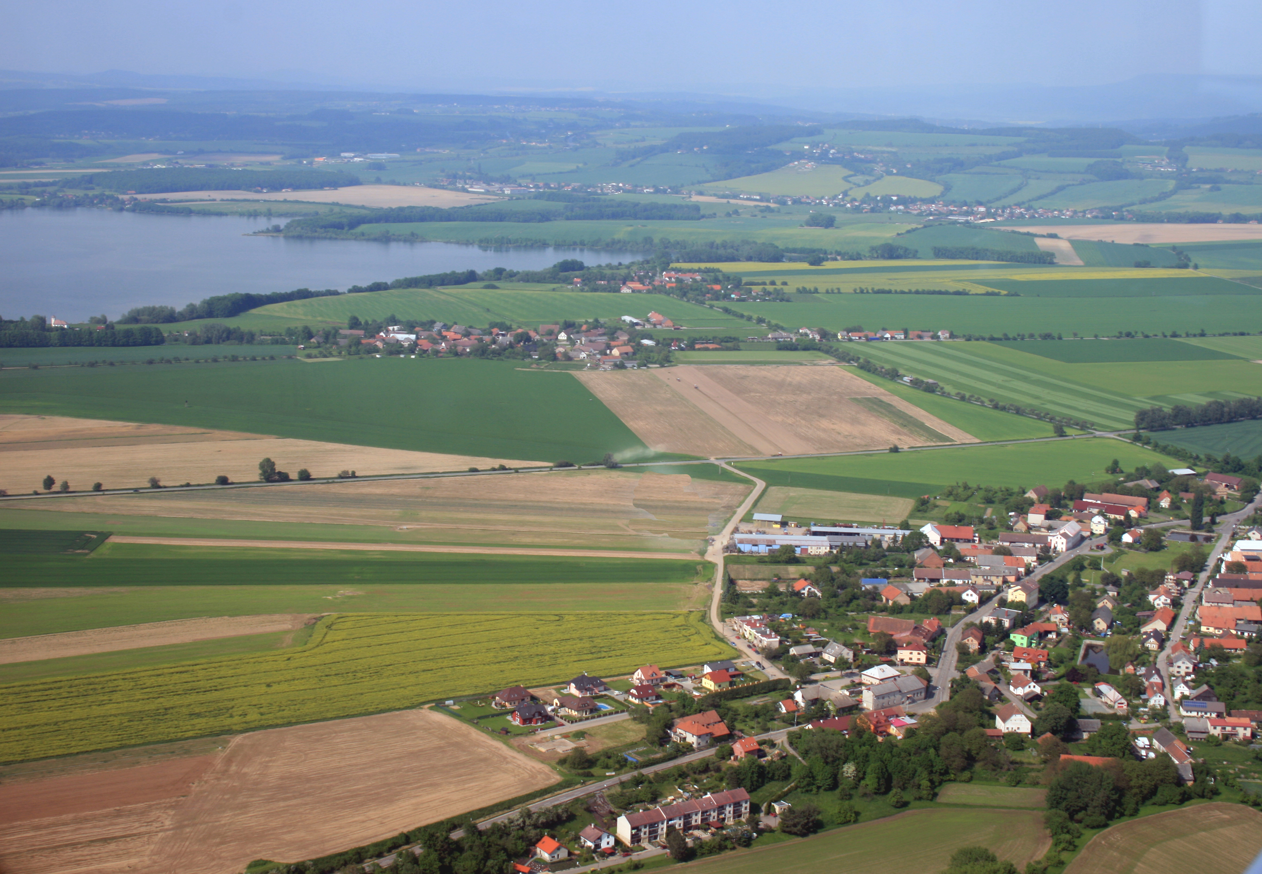 Village Nahořahy and its part Lhota (back) from air, eastern Bohemia, Czech Republic